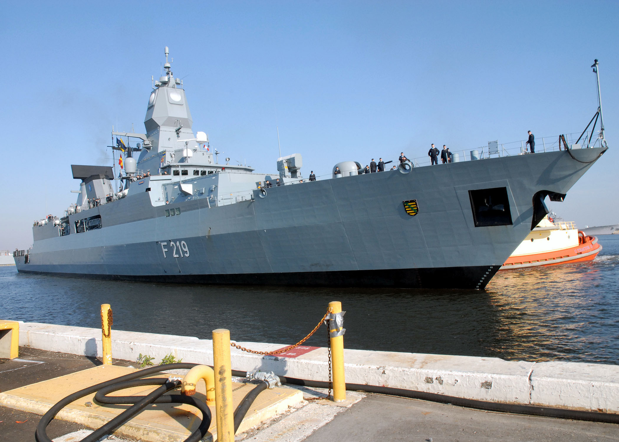 The German frigate Sachsen (F 219) prepares to come pier side into Naval Station Mayport, Florida (USA), for a port visit on 8 February 2007. Sachsen was assigned to "Standing NATO Maritime Group One (SNMG-1)", a joint allied maritime task force designed to protect the waters of NATO countries and beyond.